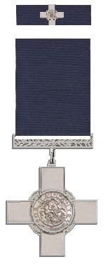 George Cross and baton